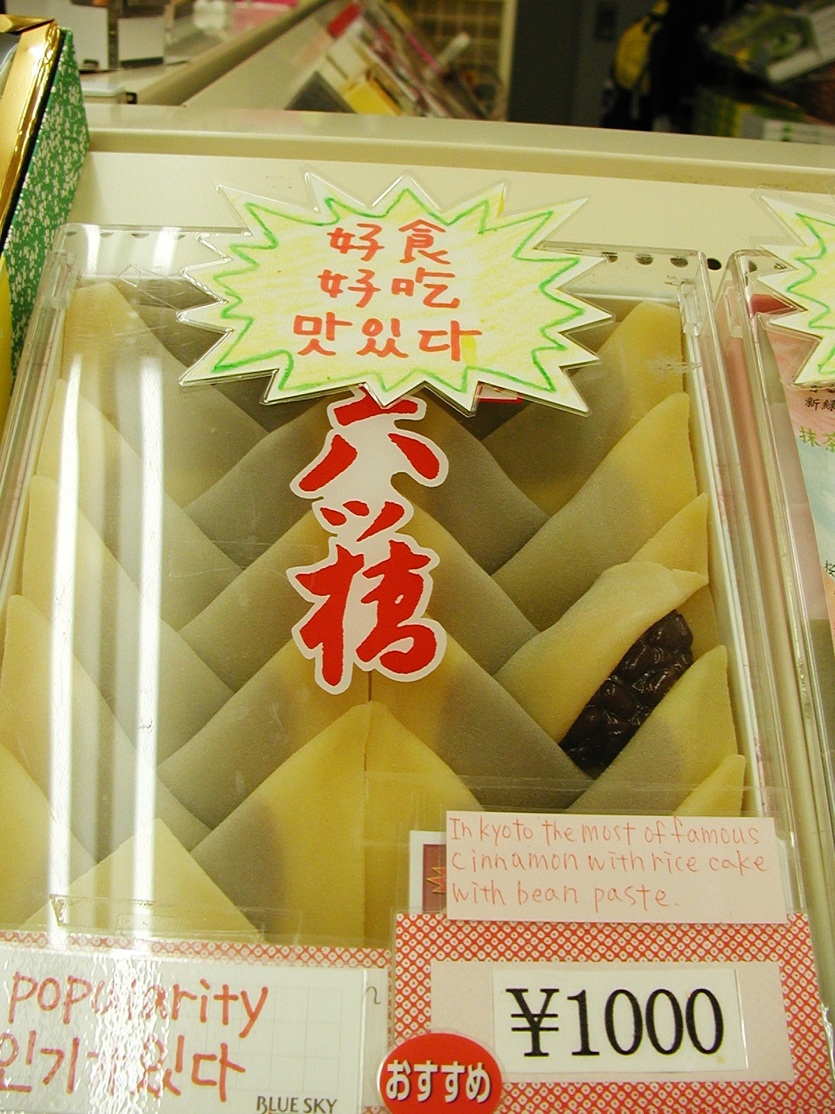 Kyoto (Japan) Sweet Cakes